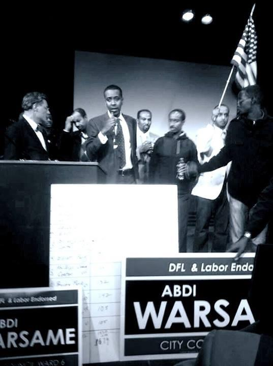 Warsame's giving his victory speech in Cedar-Riverside.